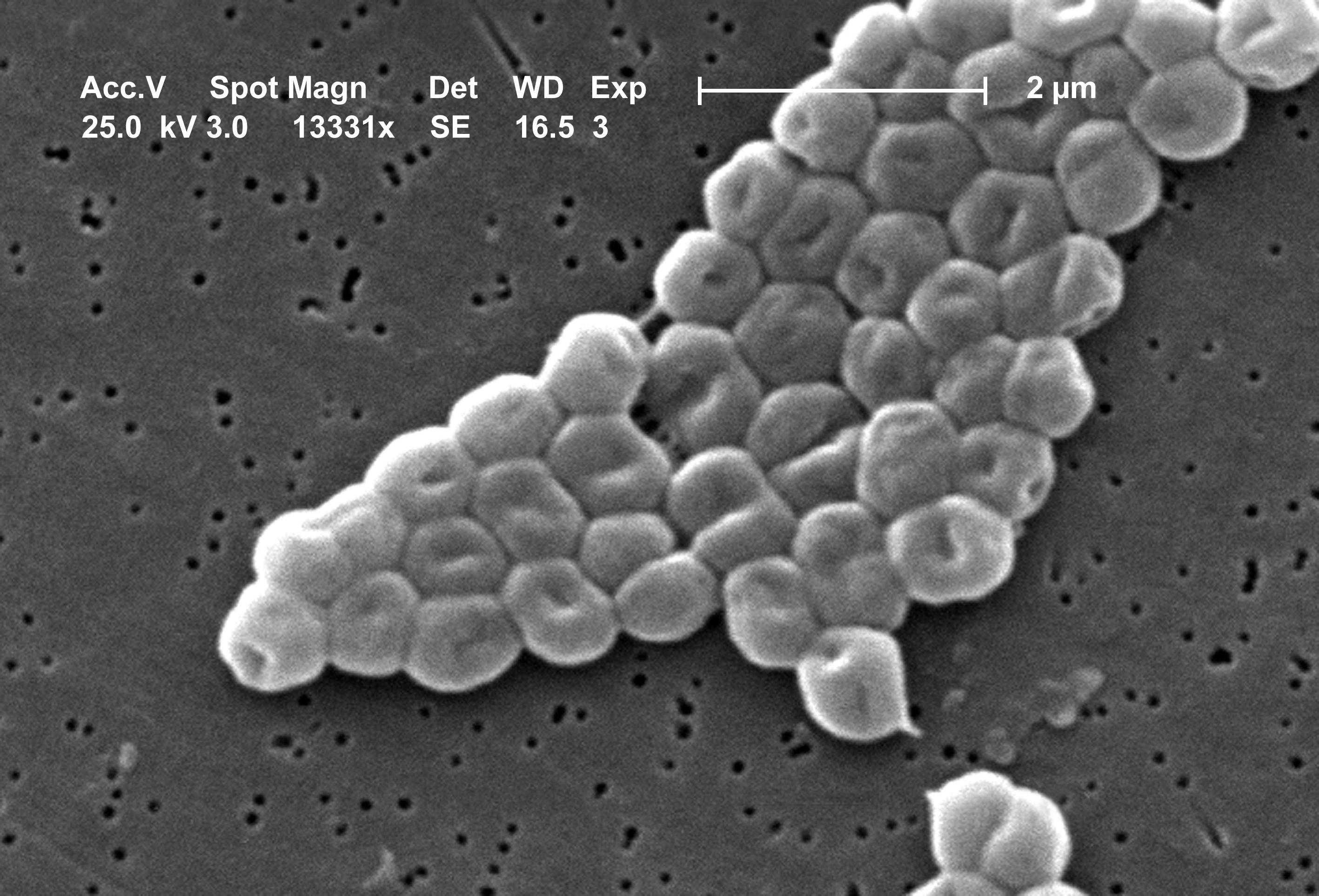 A scanning electron micrograph (SEM) of a highly magnified cluster of Gram-negative, non-motile Acinetobacter baumannii bacteria; Mag - 13331x. Source:CDC's Public Health Image Library Image #6498 Photo Credit: Janice Carr